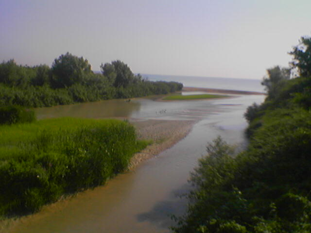 Potenza river mouth